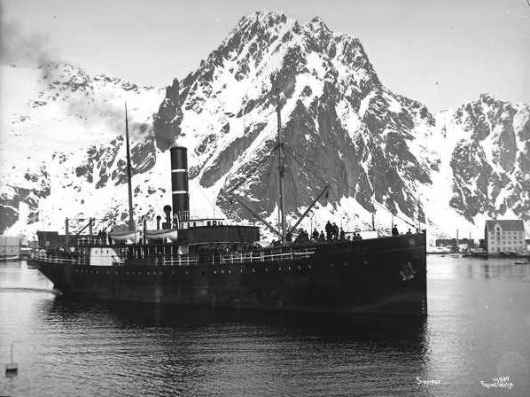 Norwegian steamship DS Tordenskjold in Svolvær, 1917. This ship was built in 1906 and was later employed in the Norwegian coastal express service (Hurtigruten) as a relief ship. During second world war she served under NORTRASHIP's control as a transport ship for the allied forces .